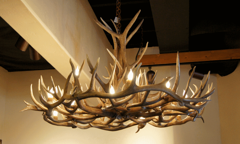 Real Antler Chandeliers